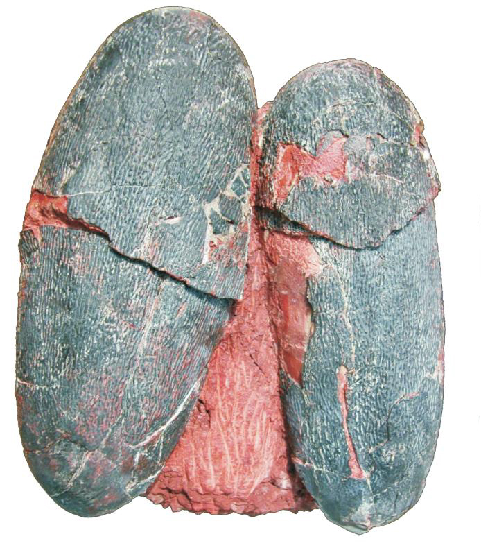 A pair of Macroolithus yaotunensis eggs. Specimen number NMNS CYN-2004 DINO-05, housed in the National Museum of Natural Sciences, Taichung, Taiwan.